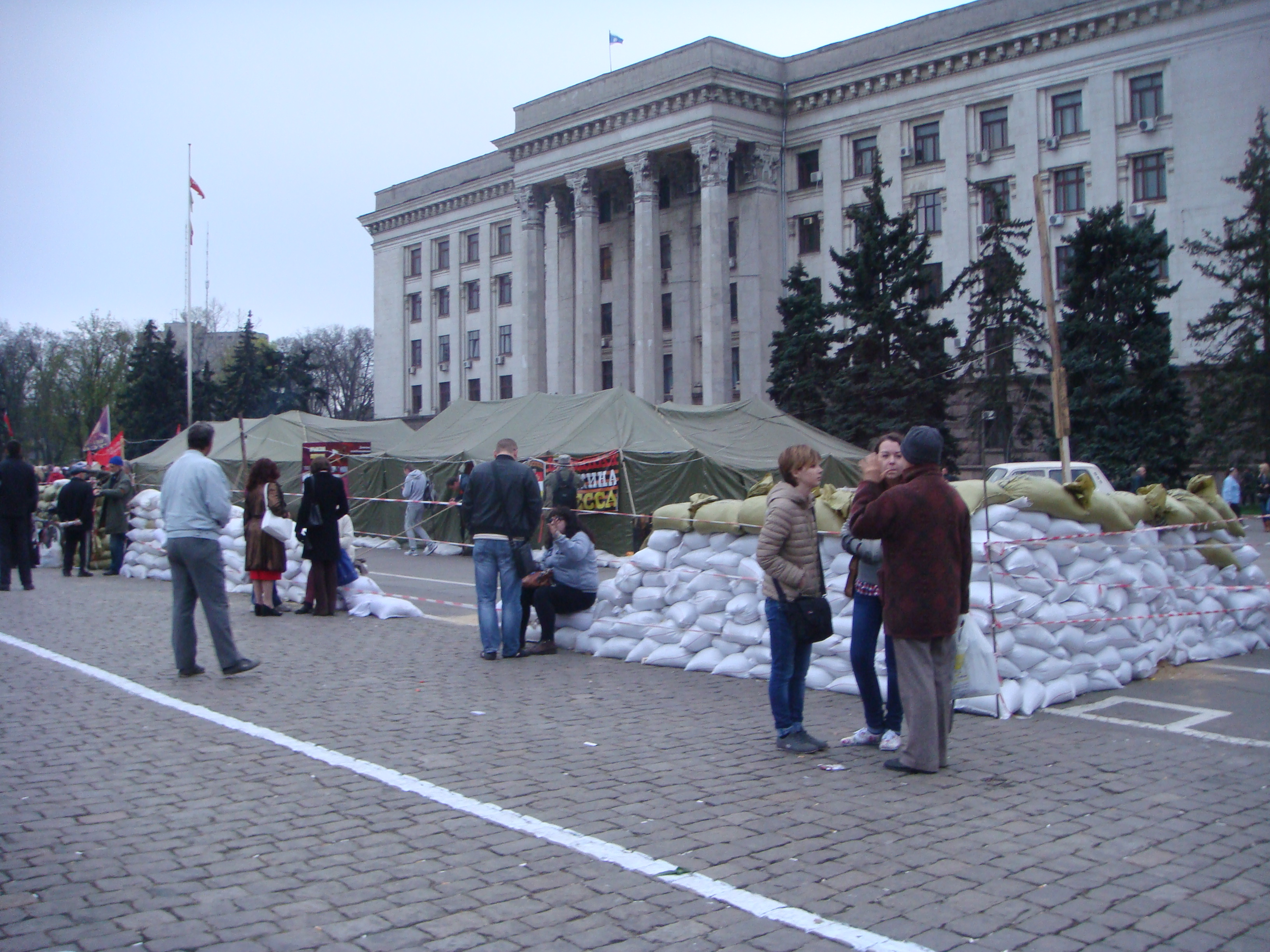 Camp of pro-Russian demonstrants at Kulikovo Pole square in Odessa, April th 10th 2014.